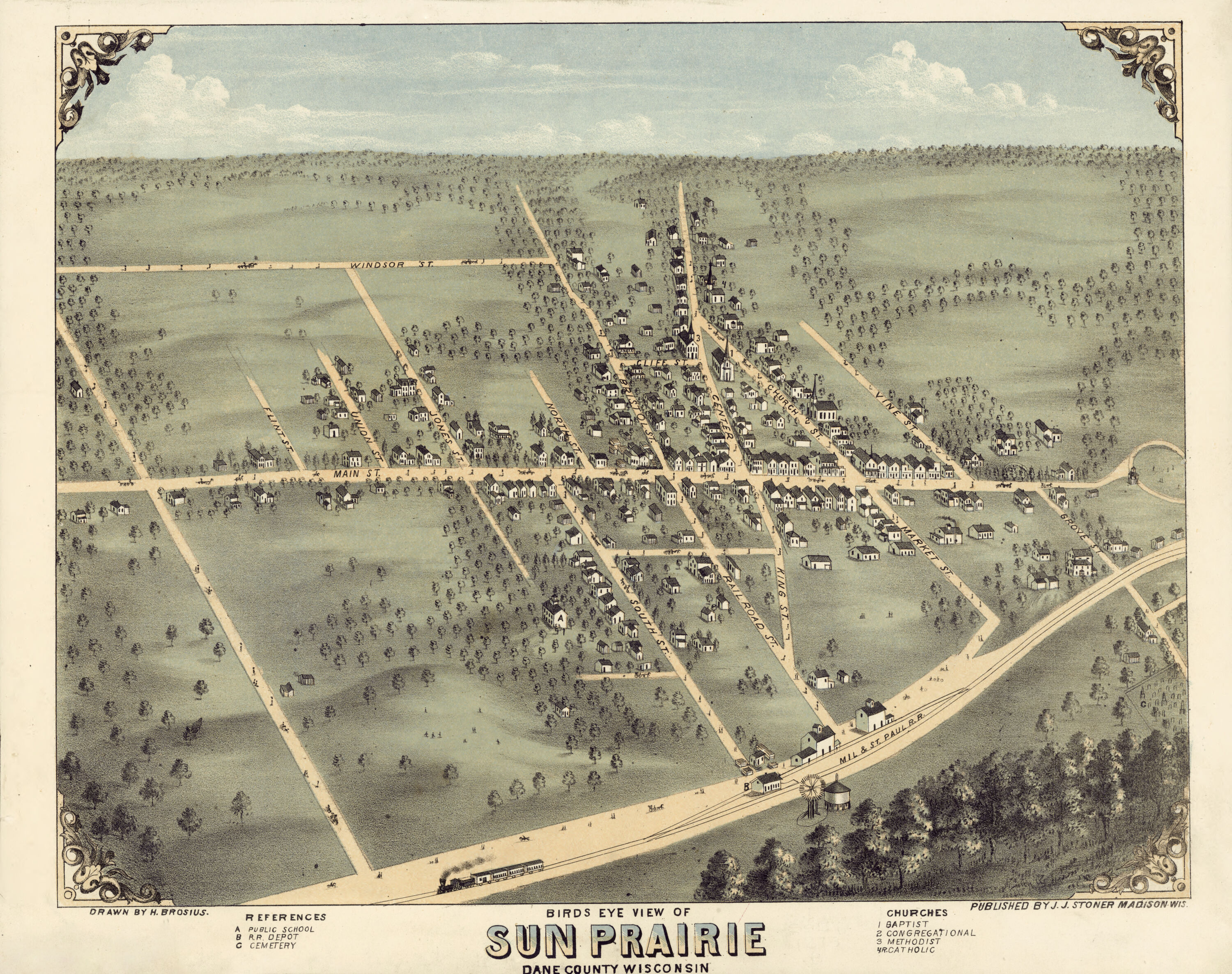 Image is an illustration (likely a visual survey of a type popular at the time) of Sun Prairie, drawn from an unknown elevation and depicting the layout of Sun Prairie as it existed in 1875.